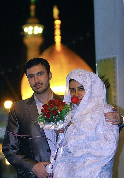 Collective wedding ceremony, Qom - 30 October 2011. main album